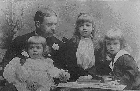 Eliott Roosevelt I was the brother of US President Theodore Roosevelt. This photo was taken of Elliott with his three children from left to right, Elliott Jr (1889-1893), Anna Eleanor (1884-1962) and Hall Roosevelt also known as "Gracie Hall" (1891-1941)